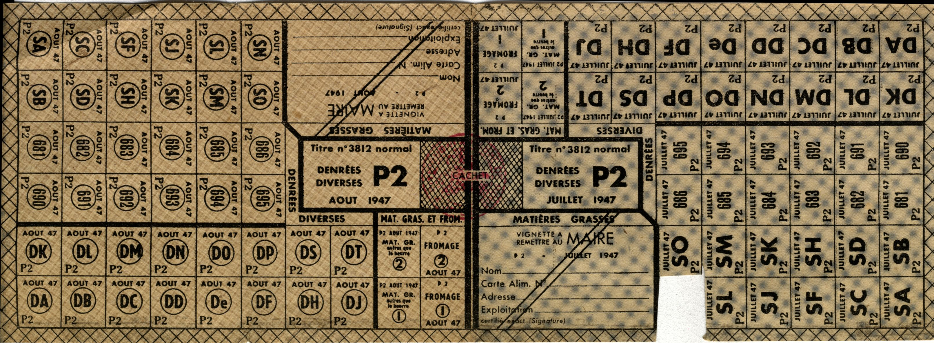 food restriction card as used in France in 1947